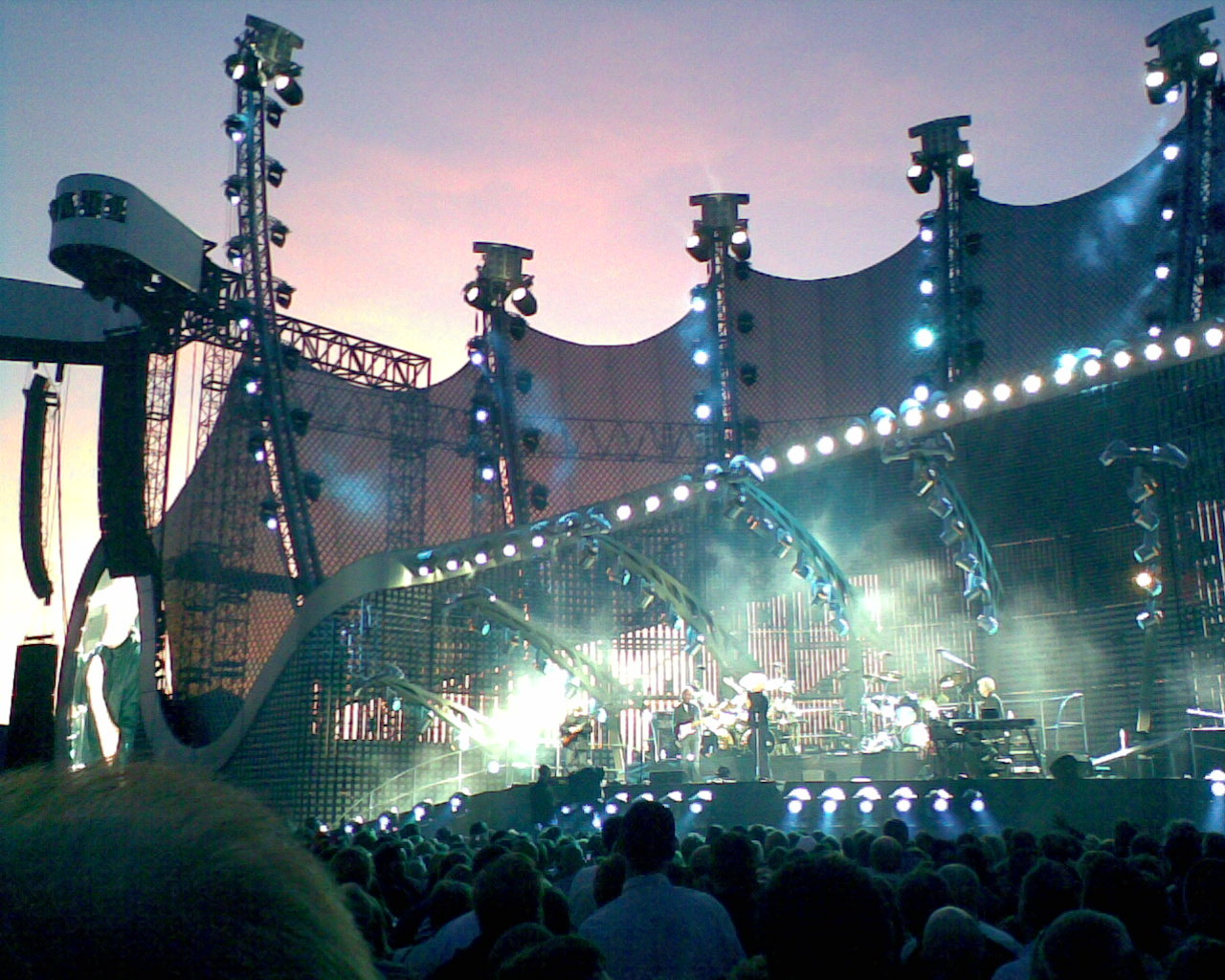 There is lambswool under my naked feet. The wool is soft and warm, -gives off some kind of heat. A salamander scurries into flame to be destroyed.